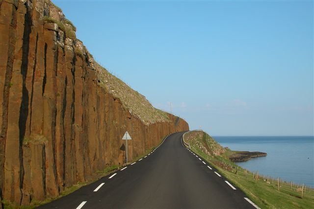 Froðba, The Faroese Islands. Author: Erik Christensen